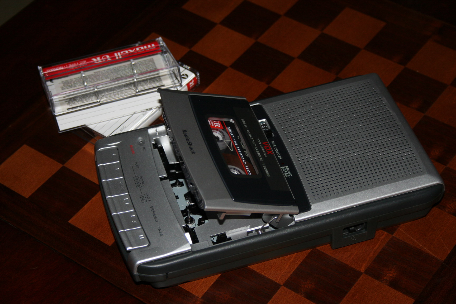 RadioShack desktop cassette recorder and two cassettes sitting on a hardwood chess board. Cassette recorder has been used for EVP recordings.